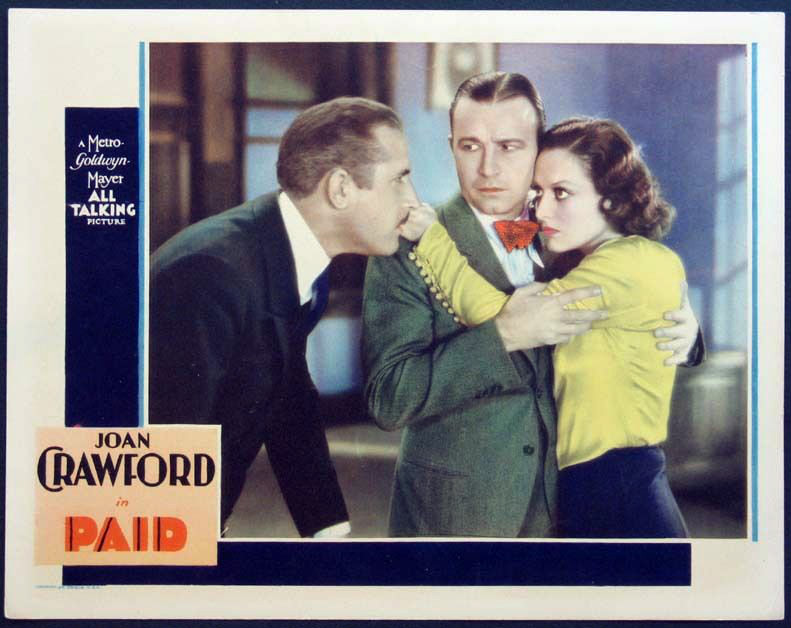 Lobby card for the American drama film Paid (1930).